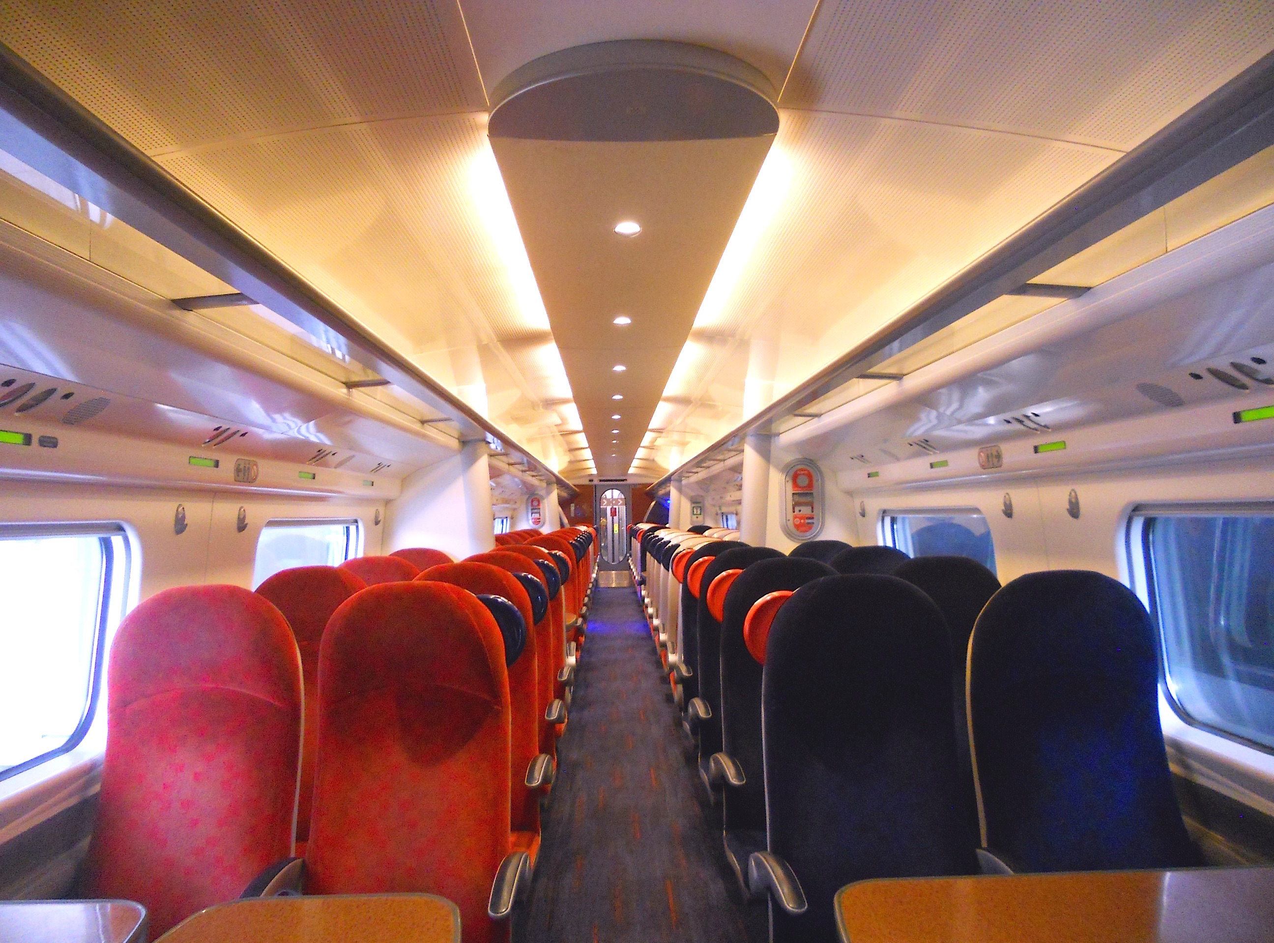 The interior of Standard Class aboard a Virgin Trains Class 390 Pendolino